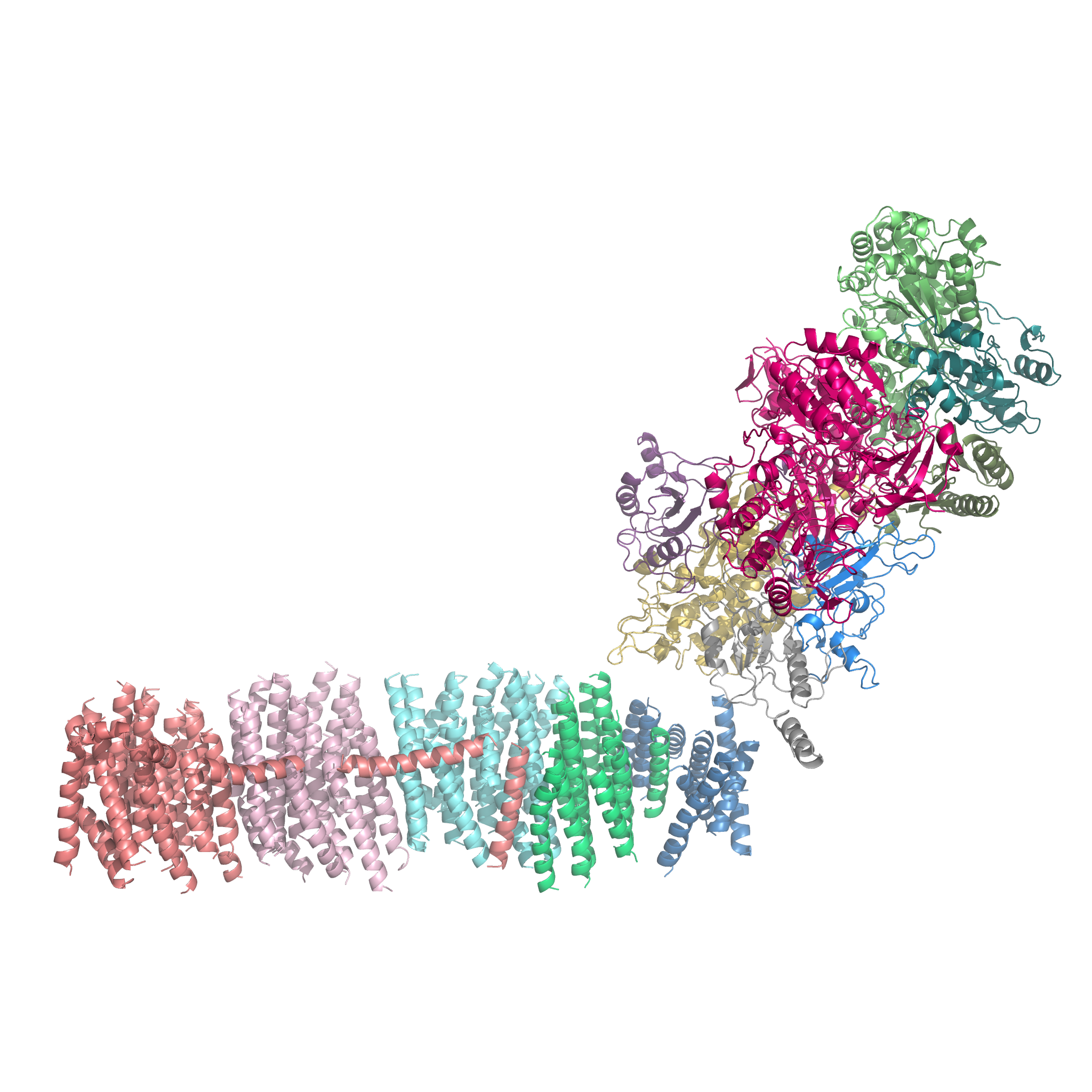 The structure of NADH dehydrogenase from Thermus thermophilus. Generated using data from 3M9S.